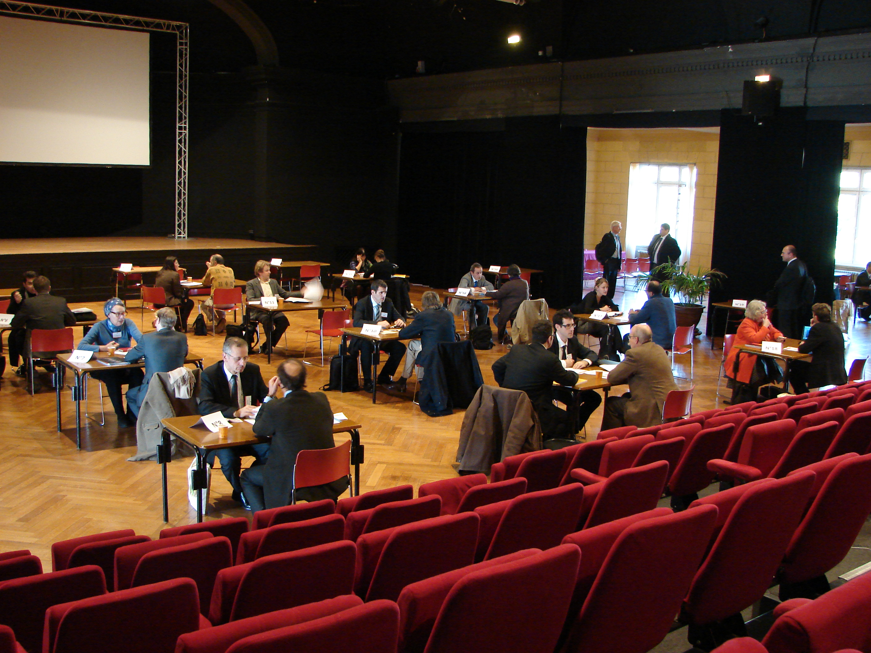 Medicen Speed Networking in 2011 at Cité Internationale Universitaire de Paris